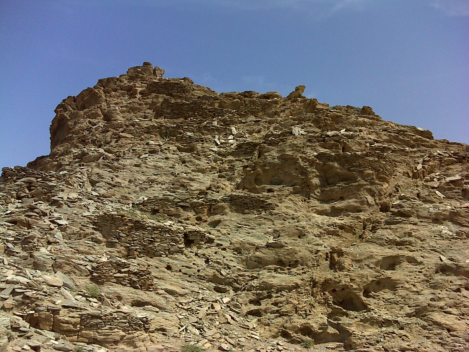 The Late Iron Age archaeological site al-Nejd lies in al-Amiran, Oman.